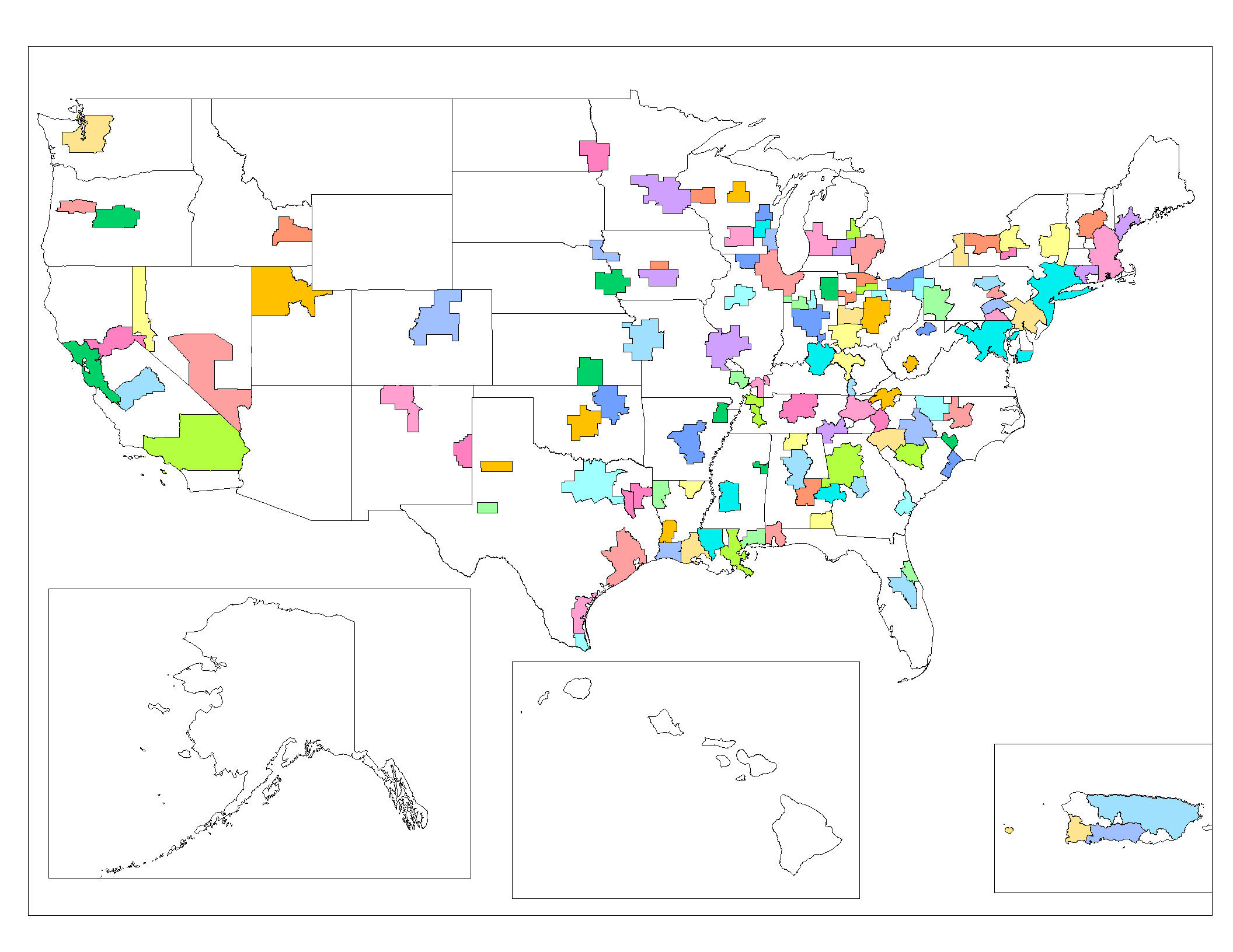 Map of the Combined Statistical Areas of the United States (based on 2005 US Census data). Created by Rarelibra 20:14, 25 October 2006 (UTC) for public domain use, using MapInfo v8.5 and various mapping resources.